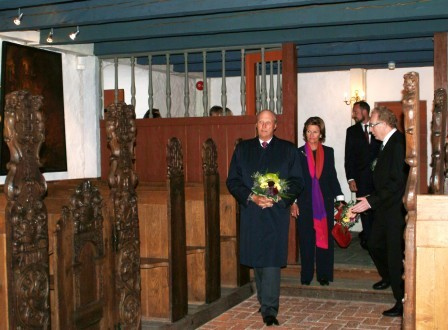 Norwegian royal family visiting Austråttborgen (en: The Manor of Austrått), in Ørland, Norway, june 2006